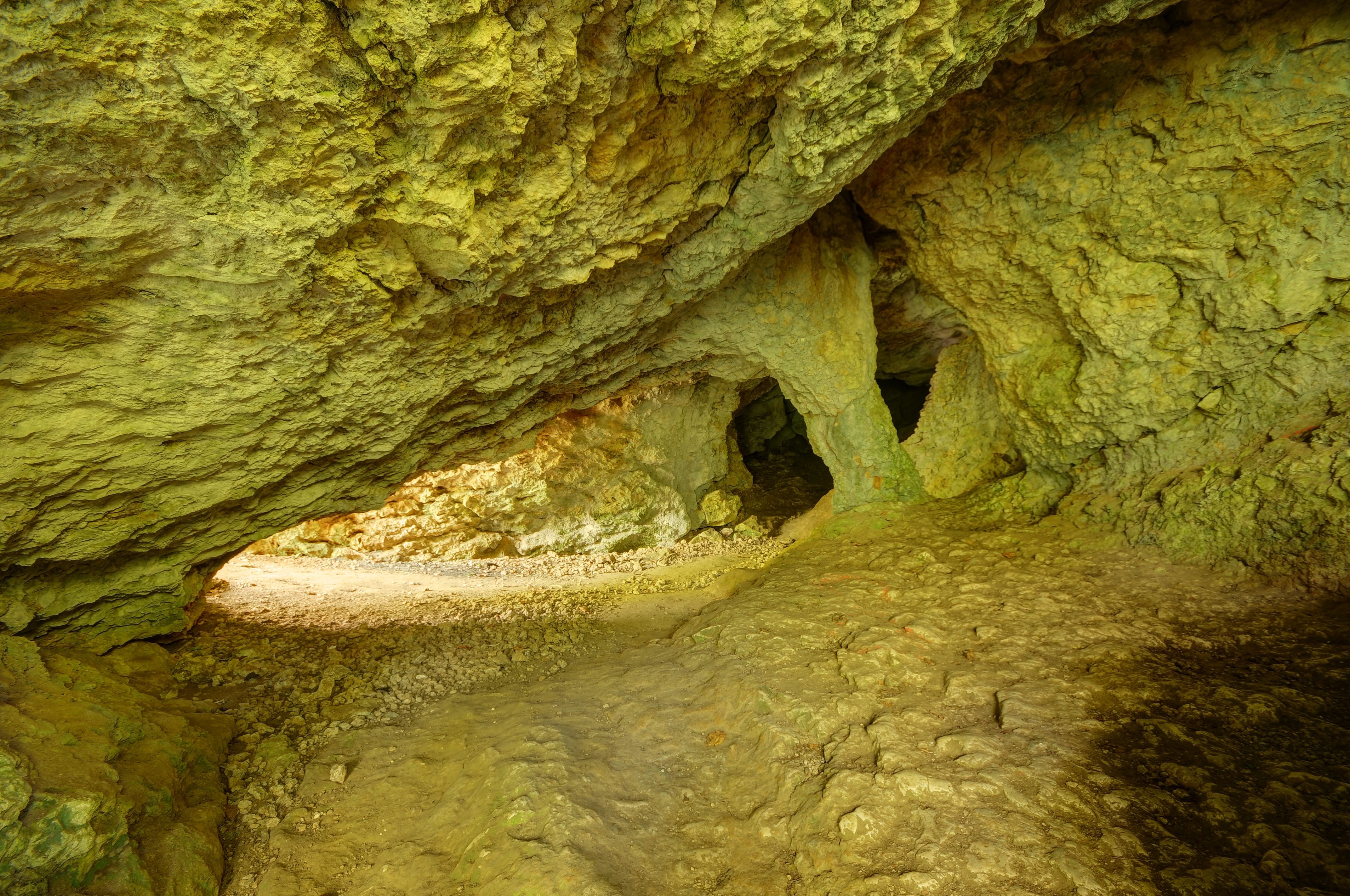 This photograph was taken with a Nikon D300 Grotte de Sabinus (HDR).